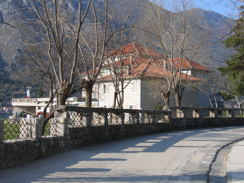 Institute of Marine Biology (Kotor)